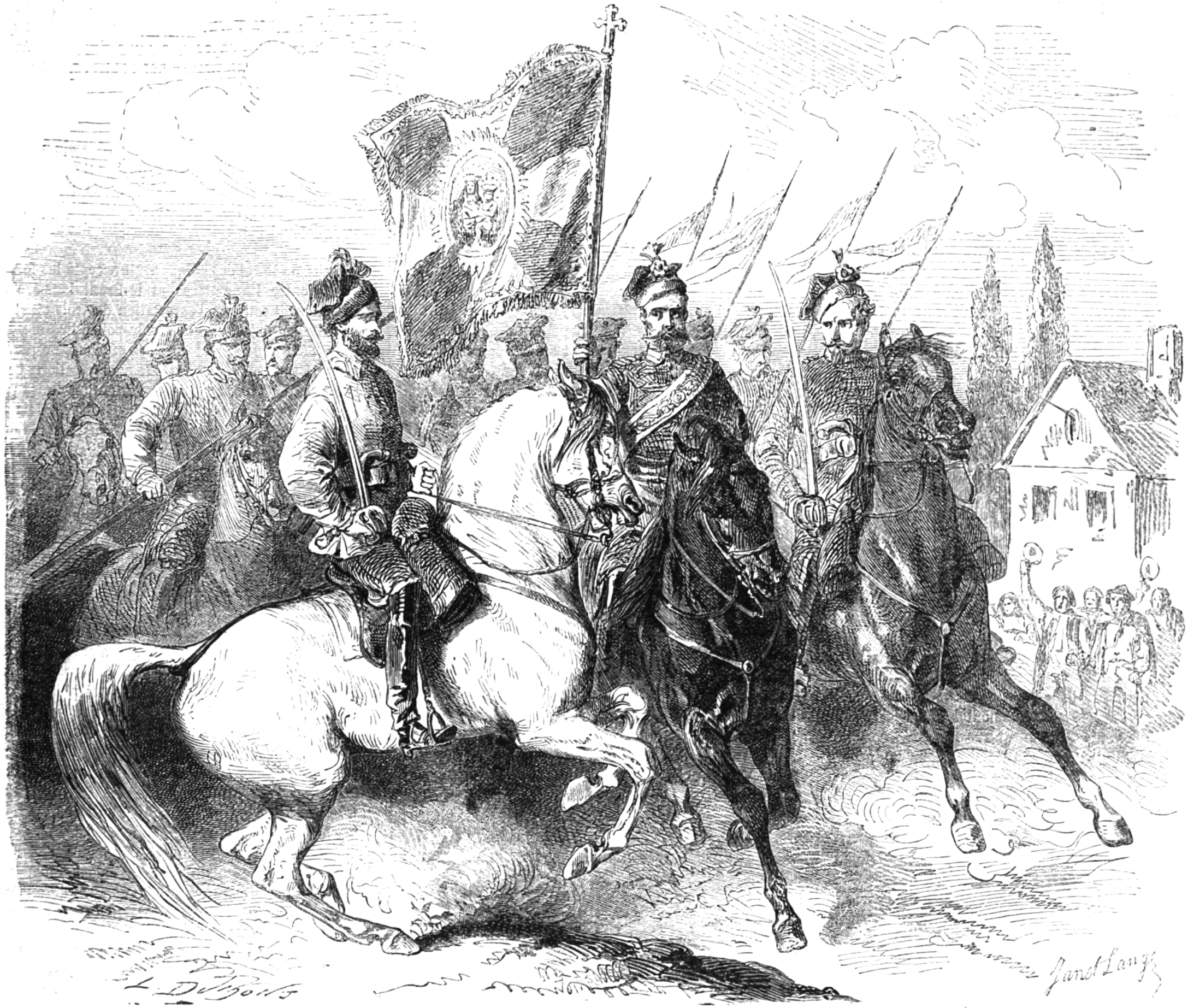 Polish mounted standard-bearer of the January Uprising 1863.